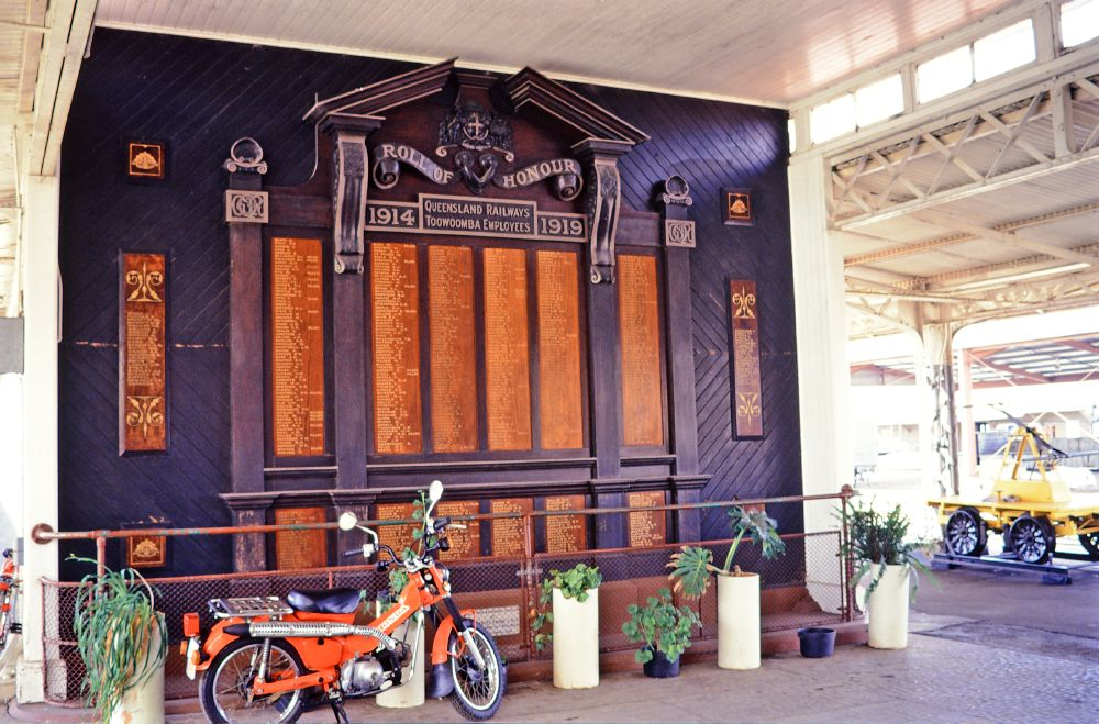 Toowoomba Railway Station, Honour Board (1993)